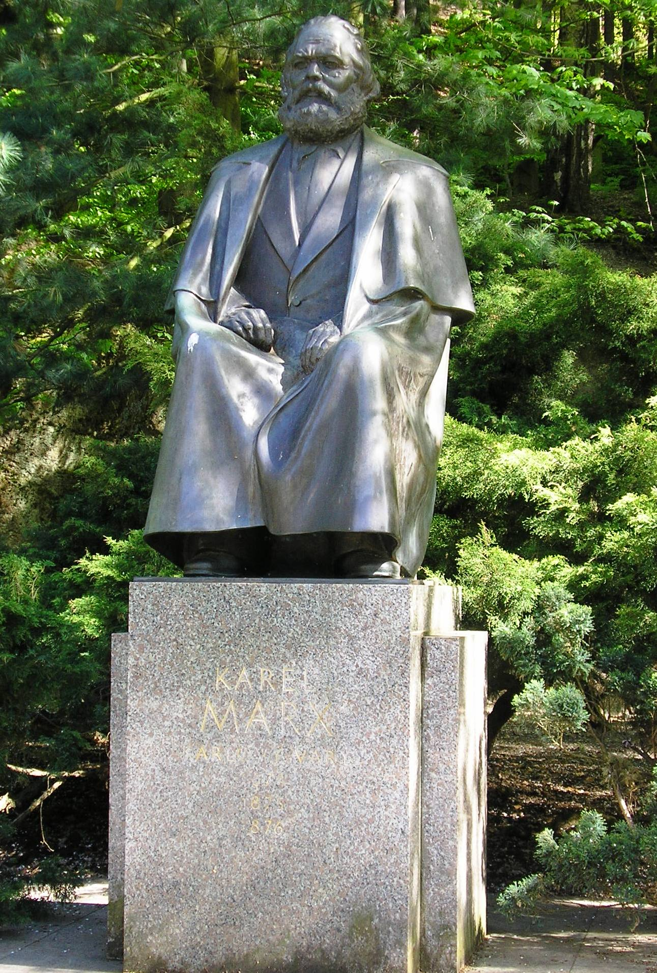 Karl Marx monument in Karlovy Vary. The monument stands not far from the orthodox church of St. Peter and Paul, at the street Zamecky vrch.